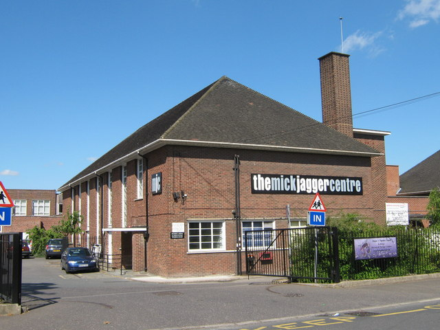 The Mick Jagger Centre Arts Centre in Dartford Grammar School. On A2018 Shepherd's Lane. for more details.